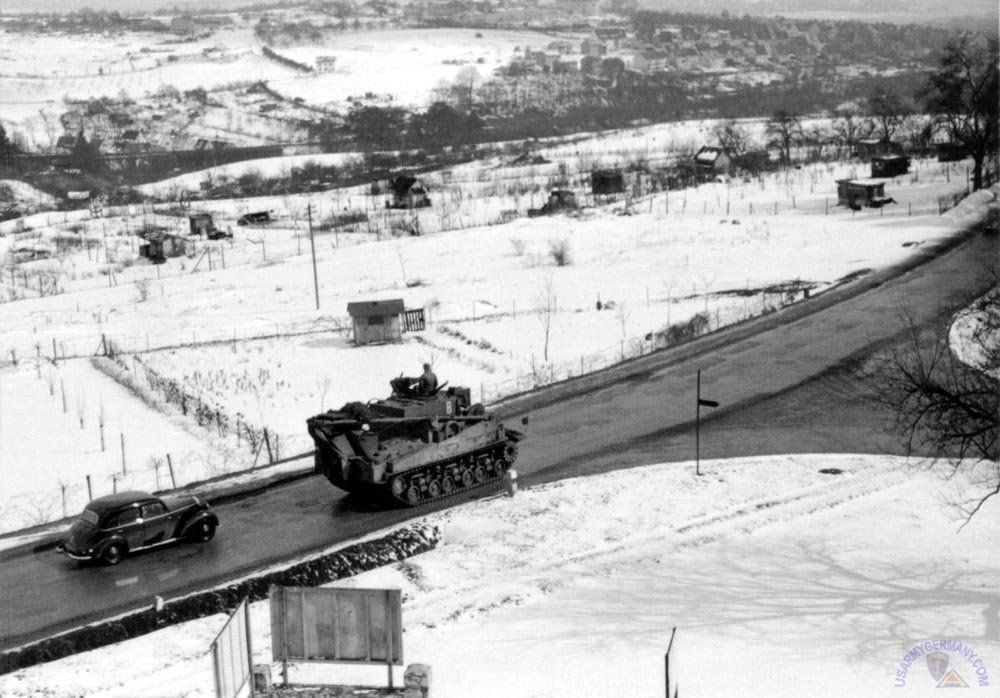 US Army M74 Recovery tank left a military facility in Ulm (Germany)